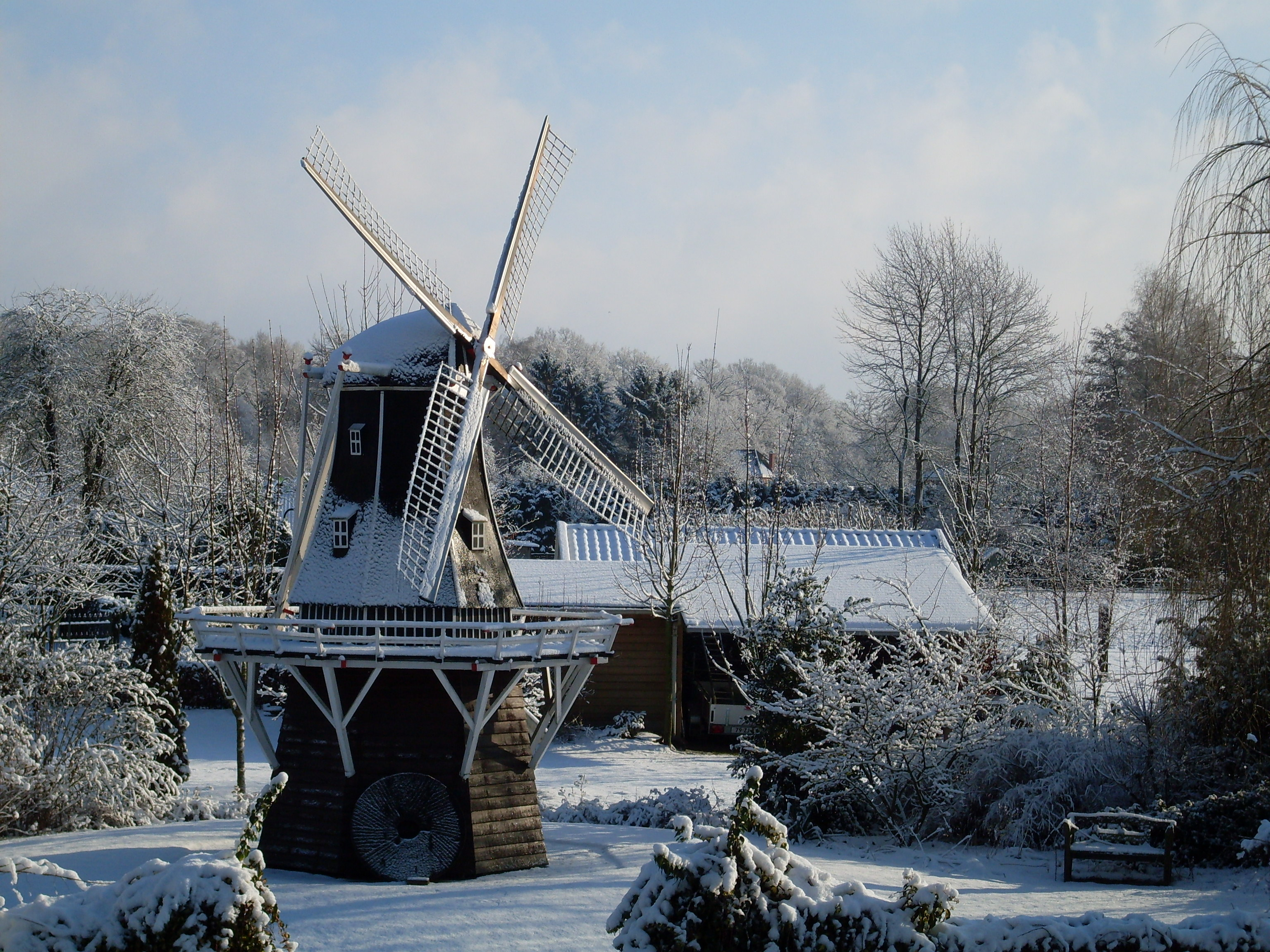 Windmill De Lelie (The Lily) in Aalten in a winter scene